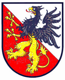 Municipal coat of arms of Ploskovice village, Litoměřice District, Czech Republic.